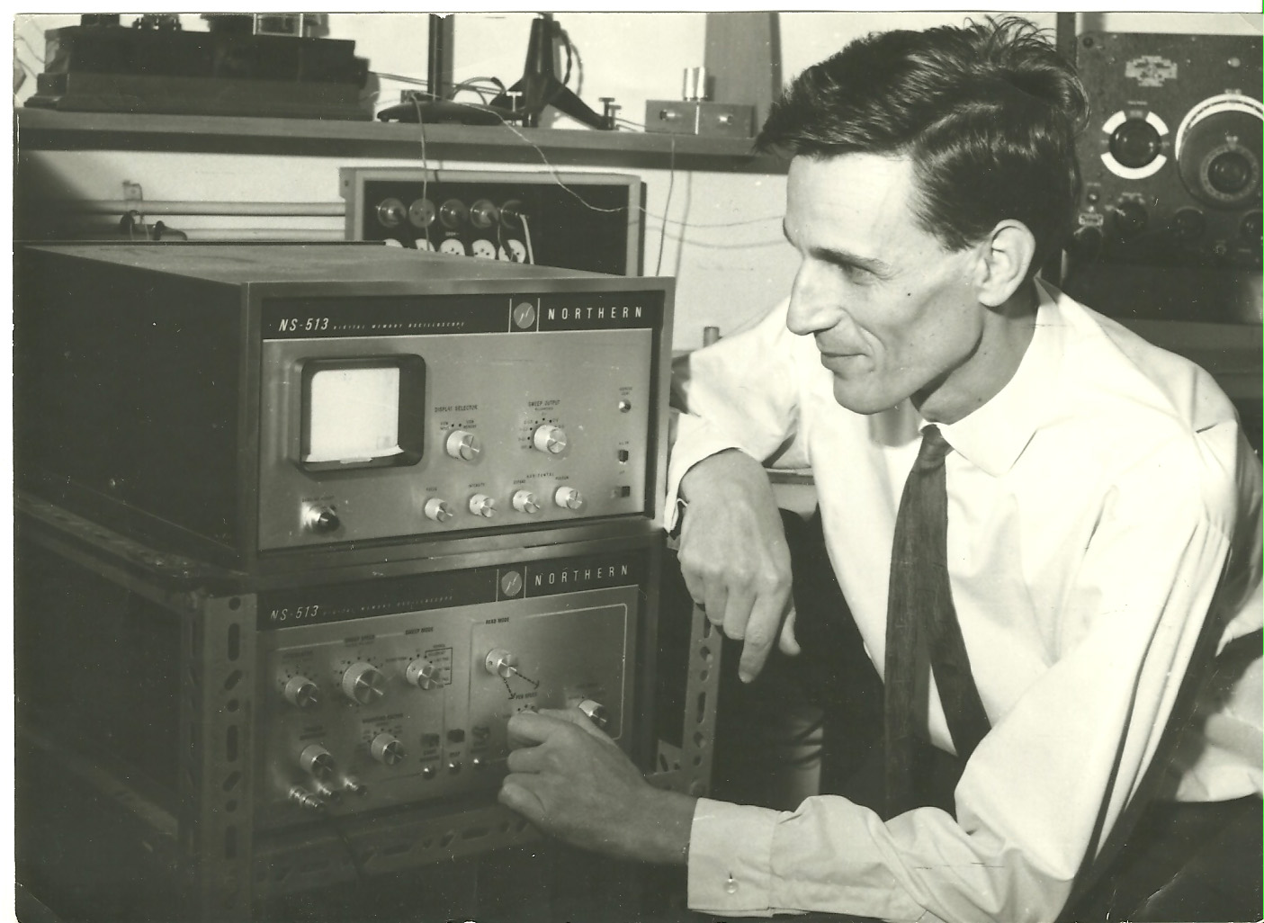 Prof. Shlomo Alexander (1930-1998) physicist at Weizmann Institute.